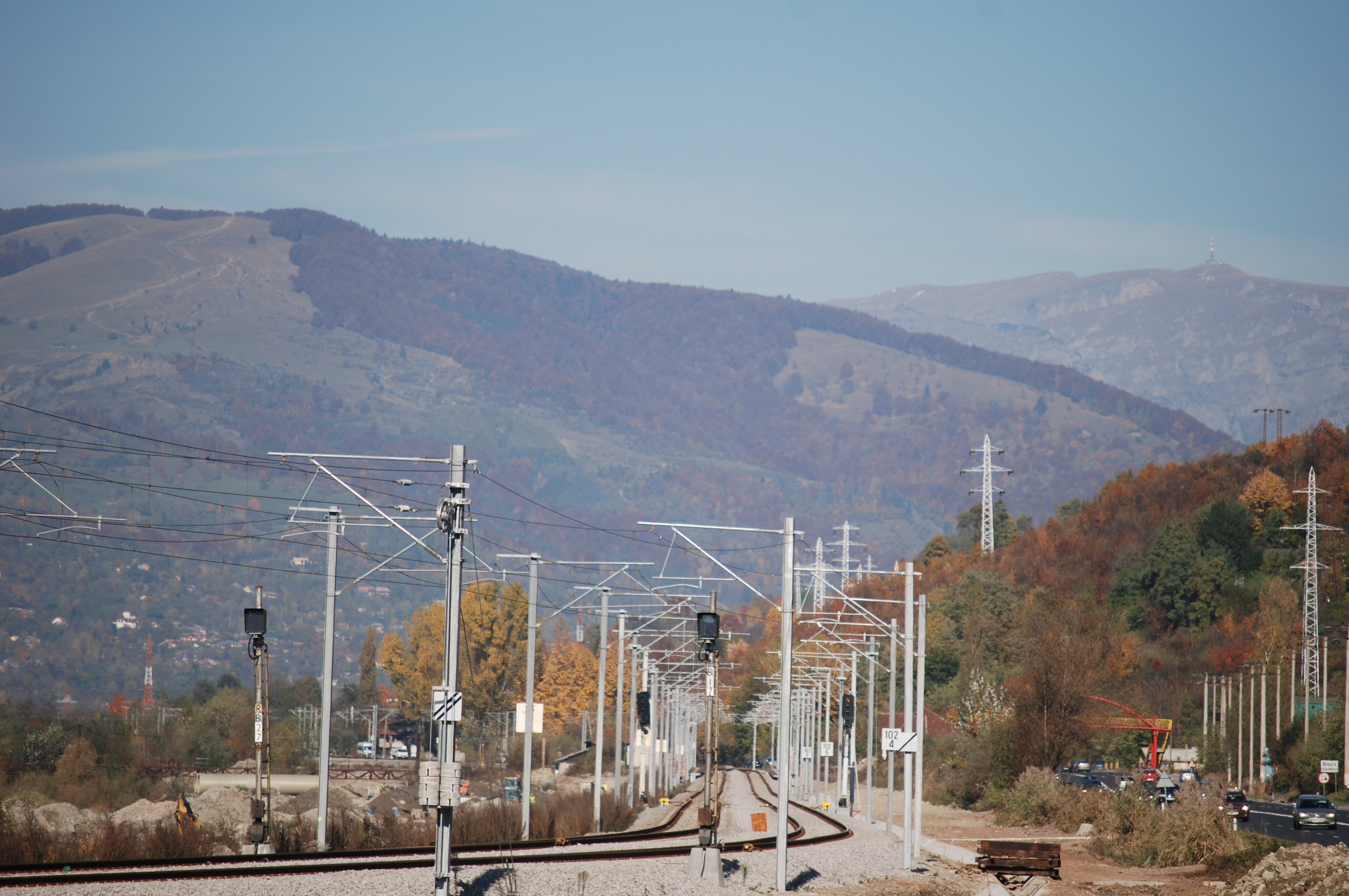 The Ploieşti-Braşov railway in Romania, near Breaza, Prahova County.